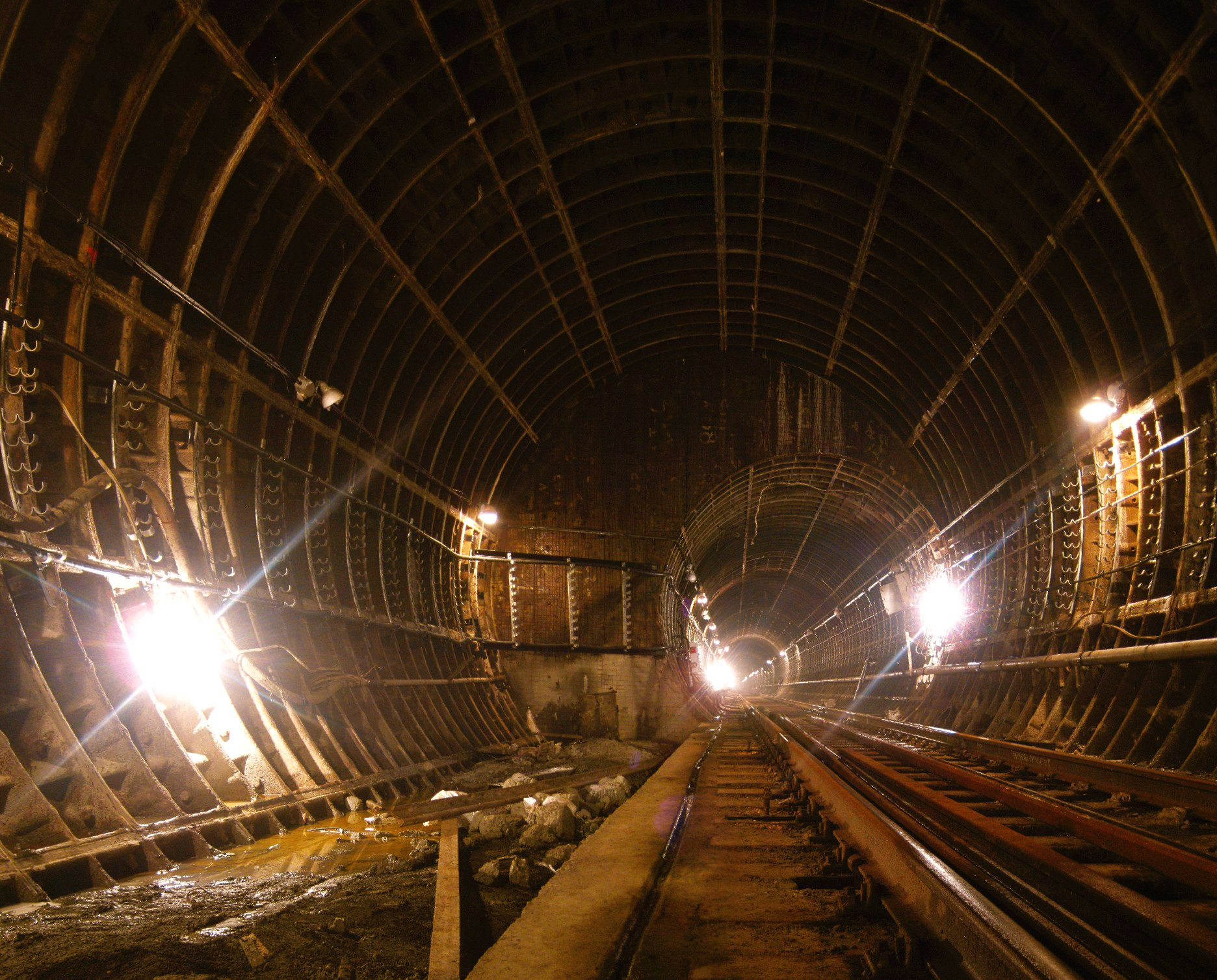 Reserve for subway station "Bazhovskaya"